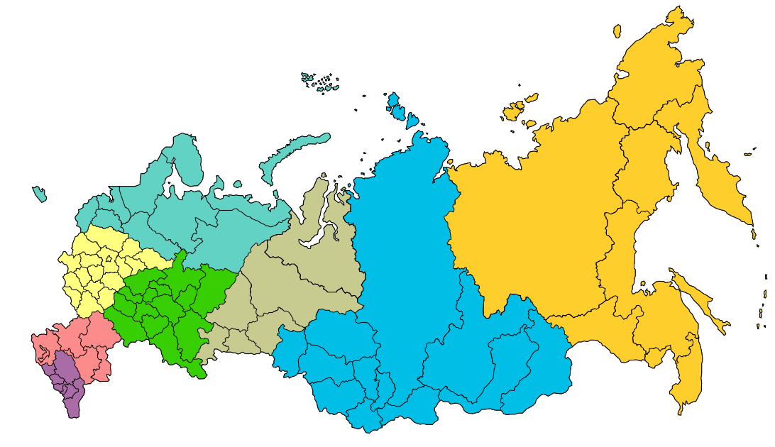 Map of the Federal districts of Russia with Crimea (21.03.2014) Central Federal District Southern Federal District Northwestern Federal District Far Eastern Federal District Siberian Federal District Urals Federal District Volga Federal District North Caucasian Federal District Crimean Federal District - Does Not Exist!!